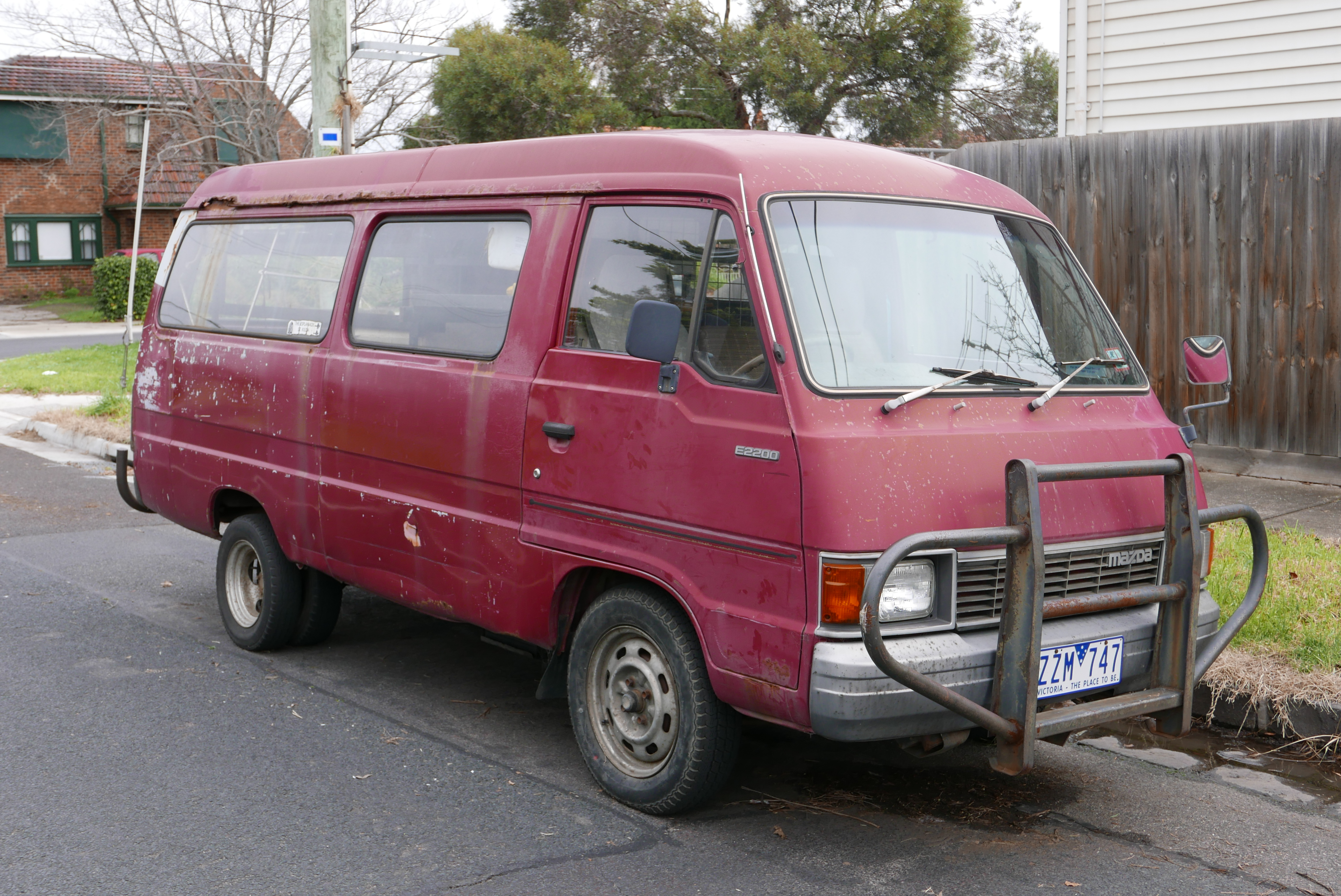 1982 Mazda E2200 MWB van. Photographed in Coburg, Victoria, Australia. Vehicle registration enquiry results Jurisdiction Victoria Registration ZZM747 Chassis code Not available Engine code E9555 Compliance date Not available Year of manufacture 1982